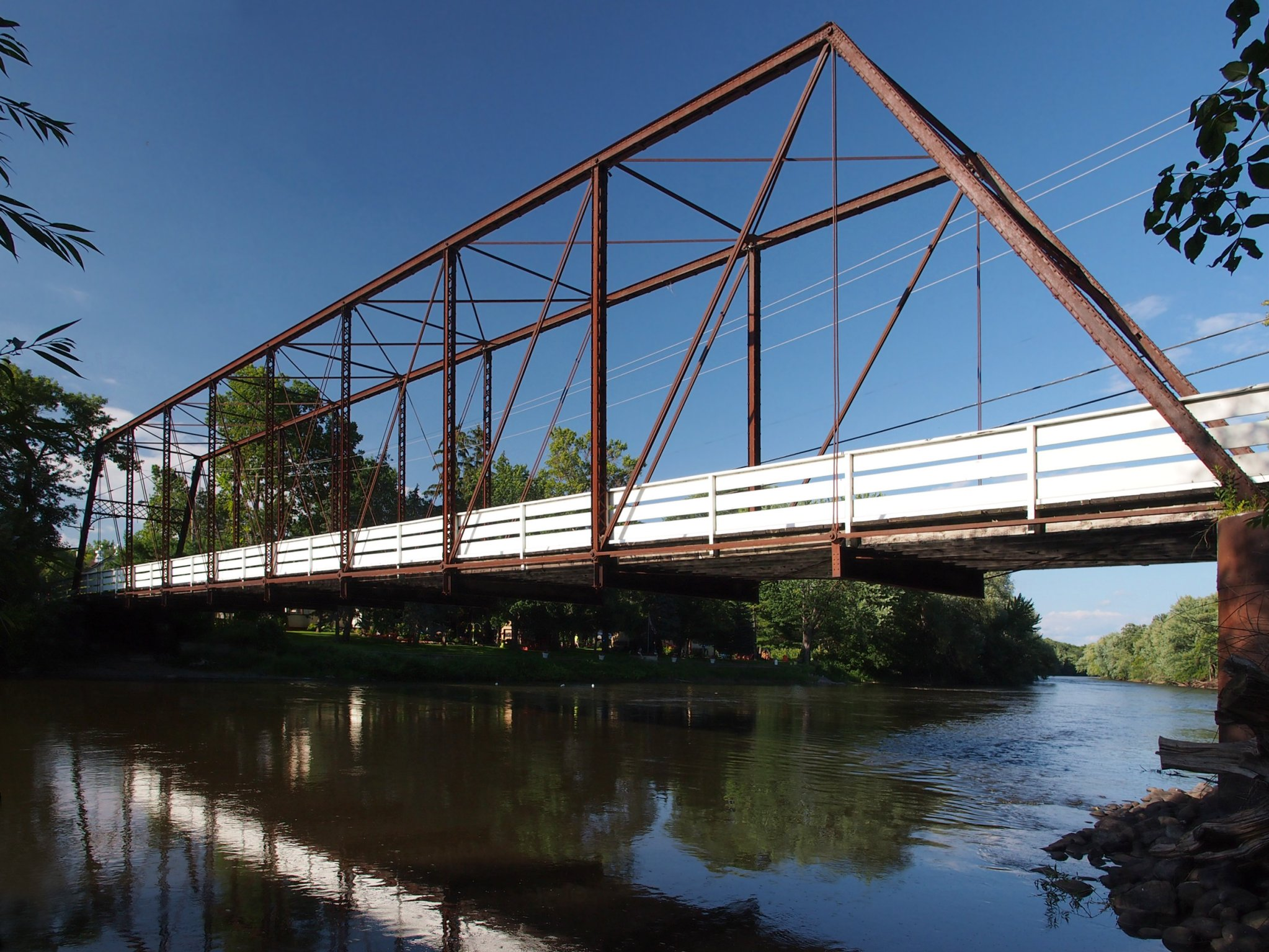 Hanover Bridge over the Crow River, County Highway 19, Hanover, Minnesota, USA. Viewed from the southwest. Had to do some bushwhacking to get to this vantage point.